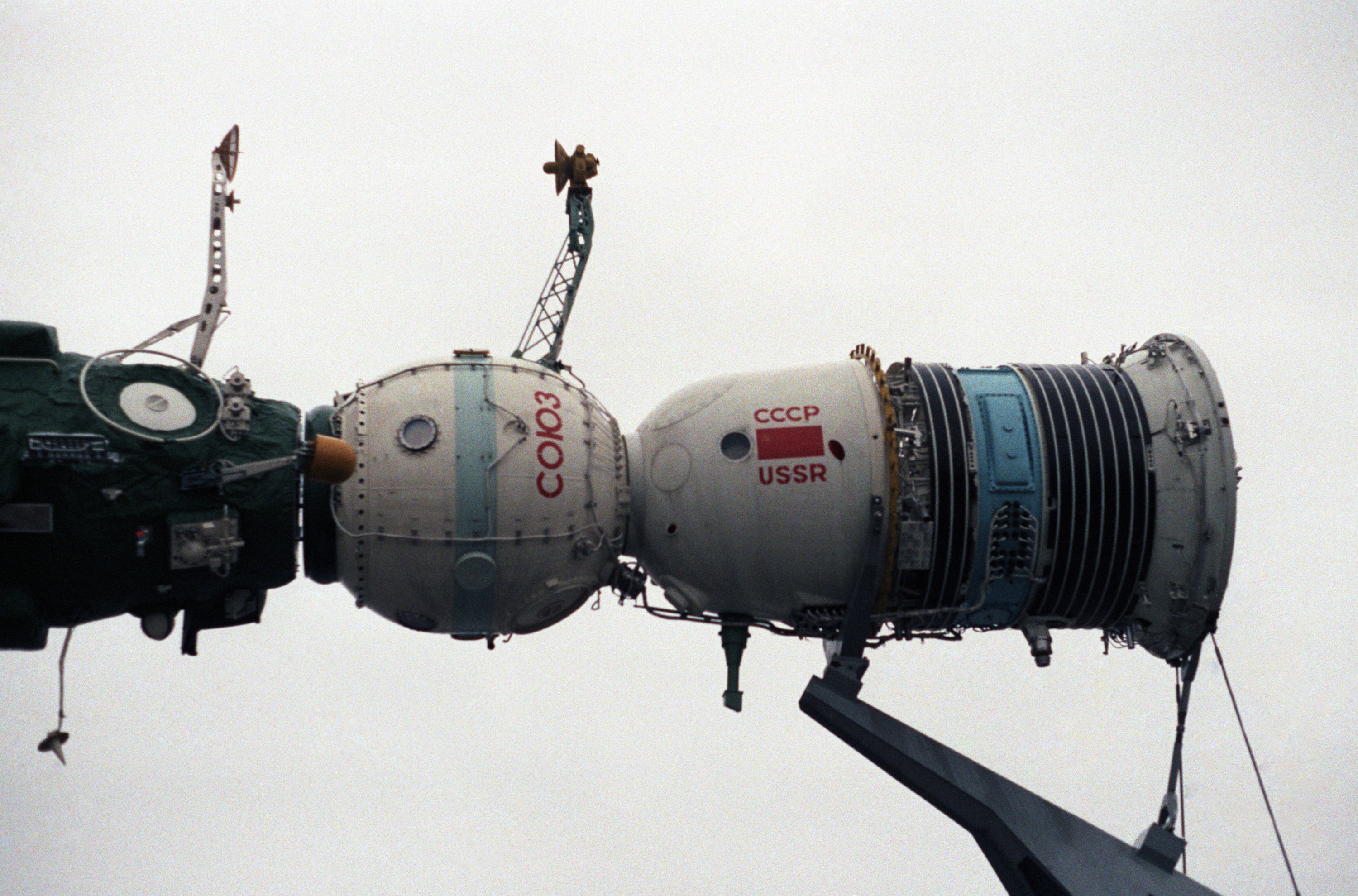 Model of a Soyuz spacecraft docking with the Salyut-7 space station. The display is in front of one of the pavilions of the Exhibition of Achievements of the National Economy.